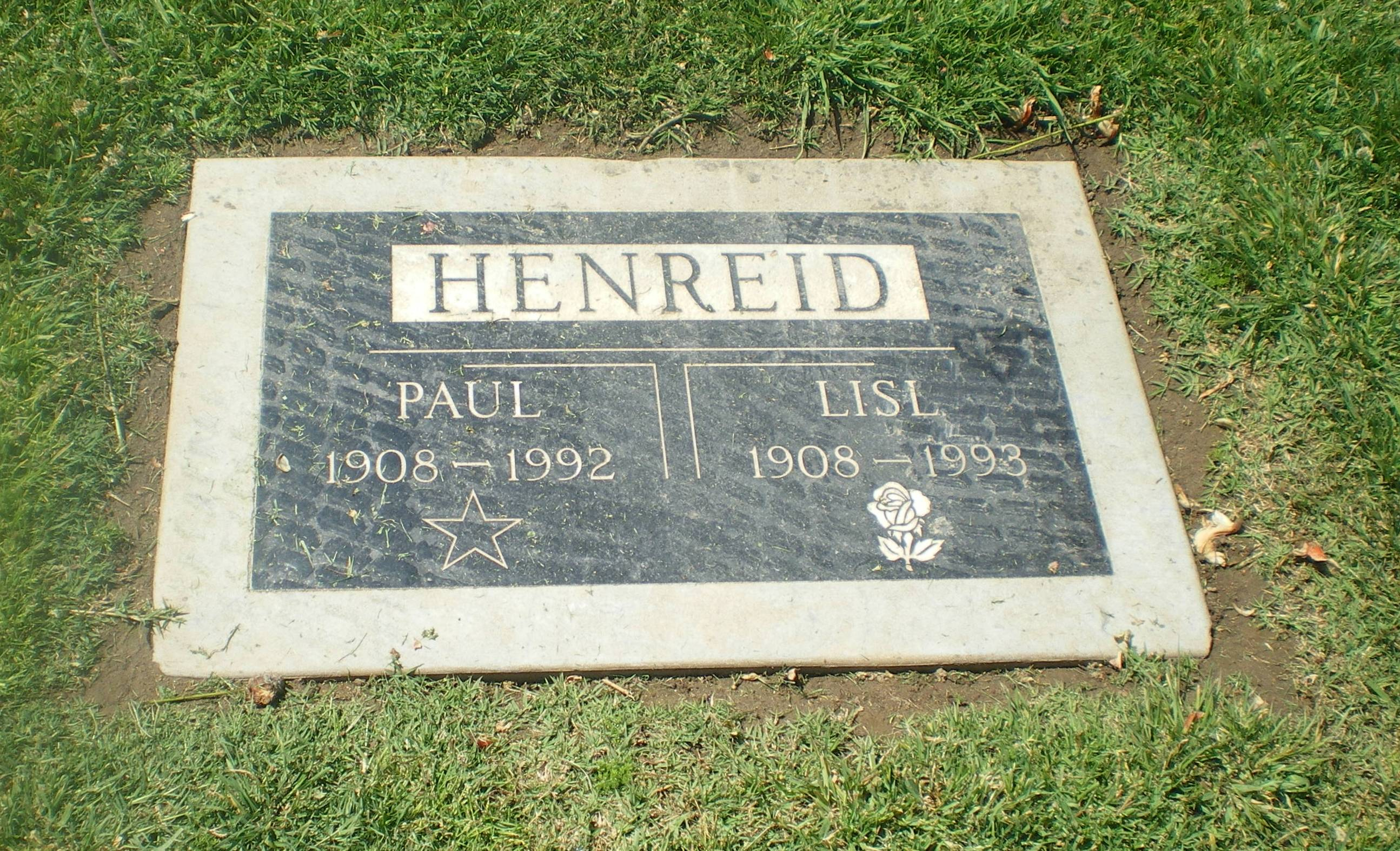 Paul Henreid Grave Woodlawn Cemetery, Santa Monica, California